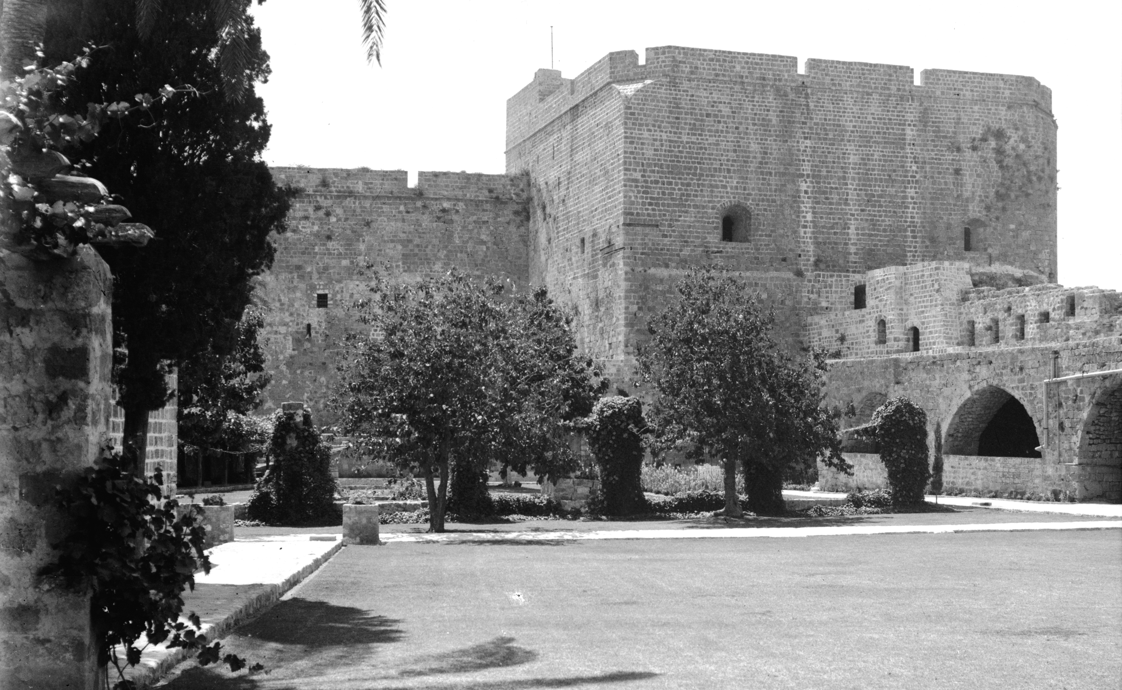 Akka (Acre, Accho). The crusader castle. Now the Palestine penitentiary